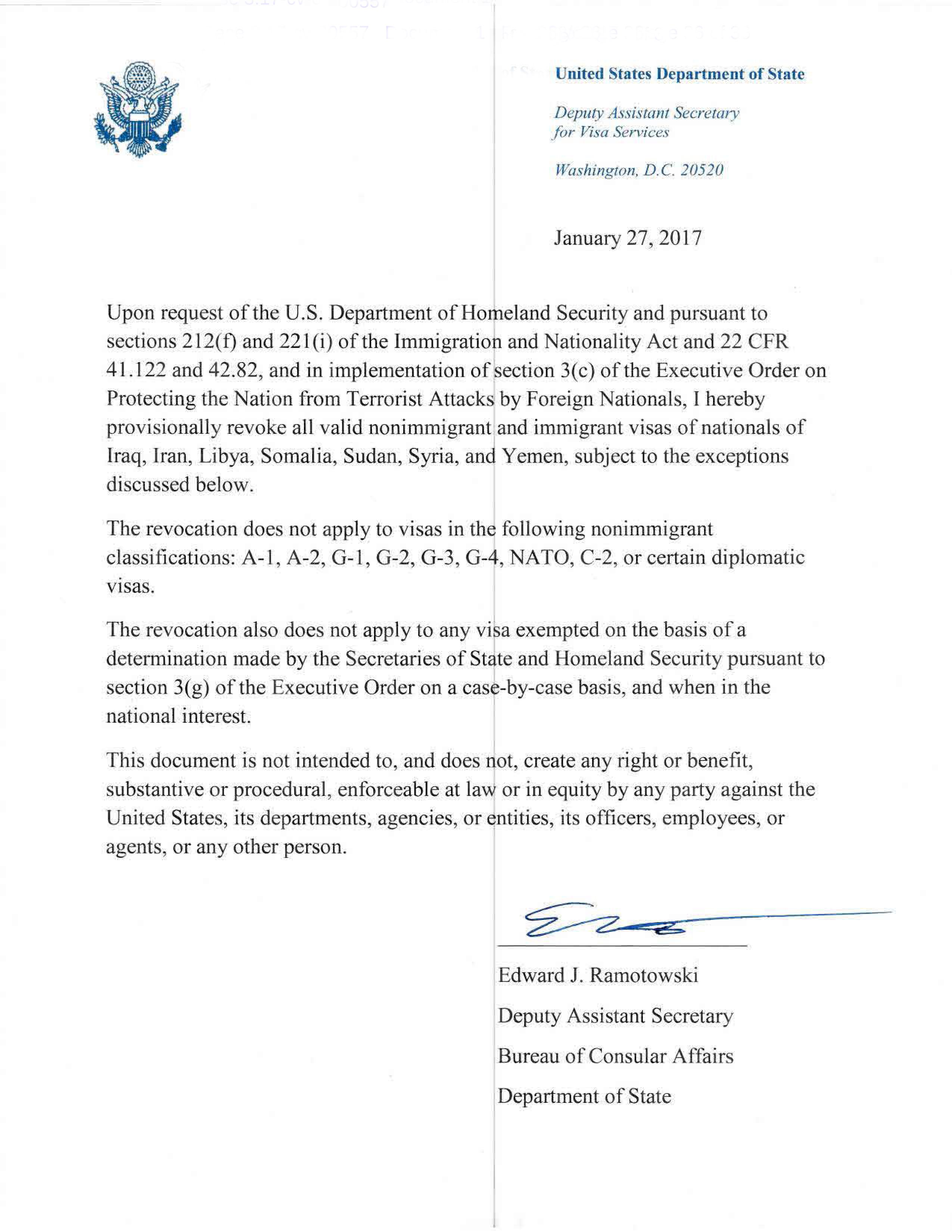 revocation of all visas of nationals of 7 states following EO 13769